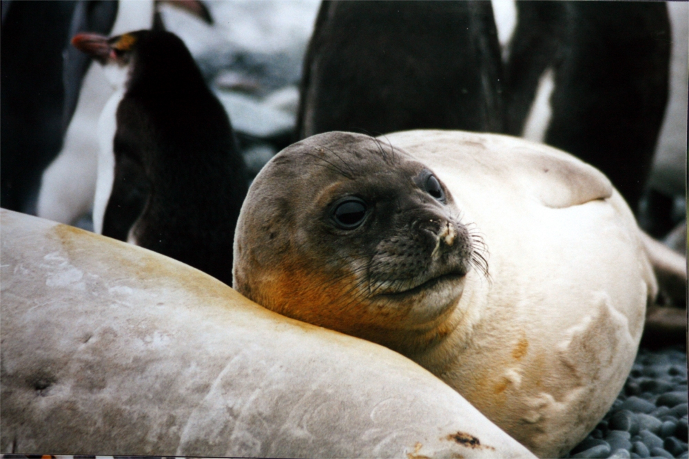 Female Southern Elephant Seal with a Royal Penguin at background Macquarie Island. The image is digital copy of my old print